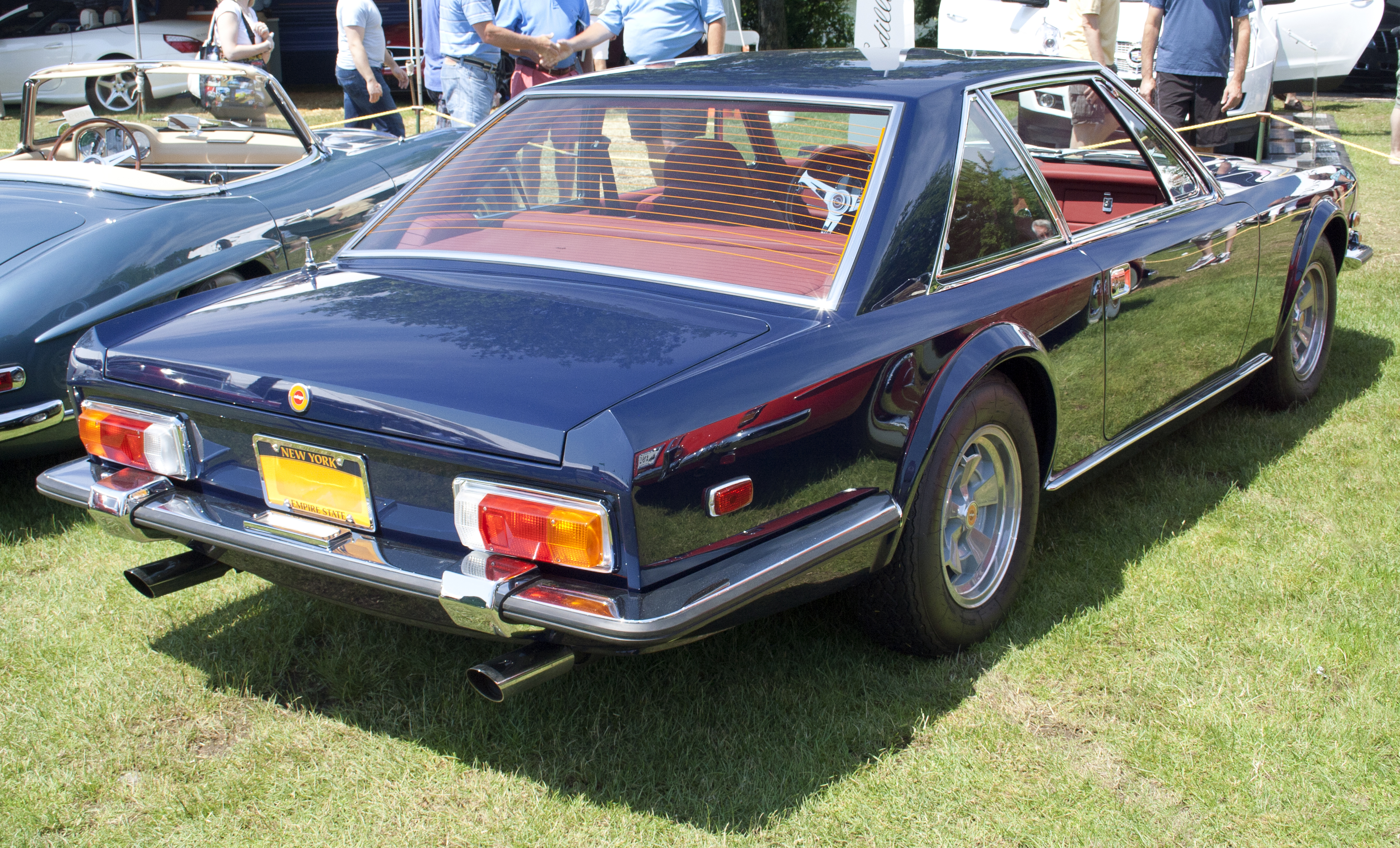 1973 Momo Mirage 2+2 at the 2012 Greenwich Concours d'Elegance. This is one of three which belong to the businessman behind the project, Peter S. Kalikow - out of six built, one was never finished and another one burnt to the ground.